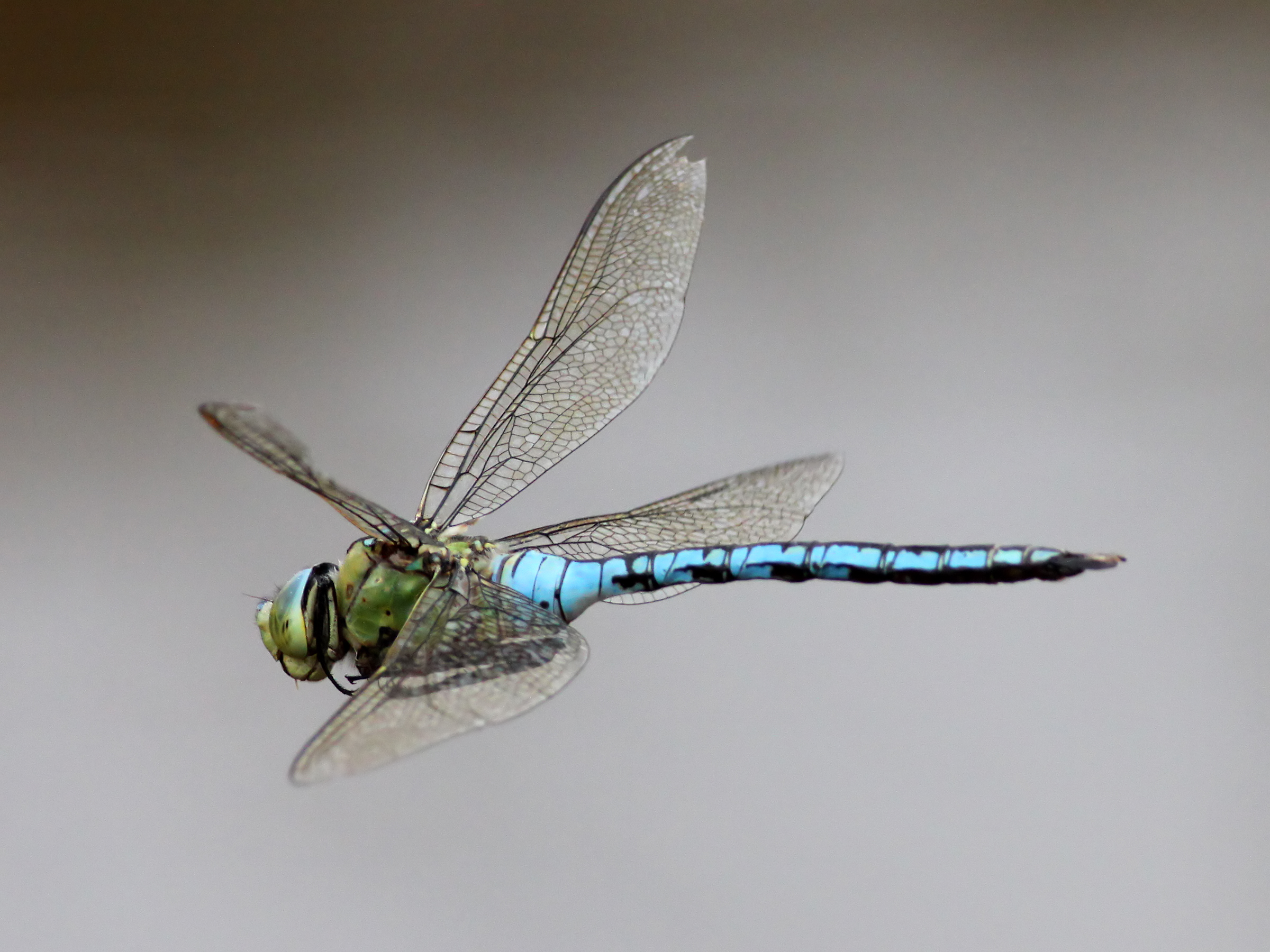 Emperor Dragonfly (Anax imperator).